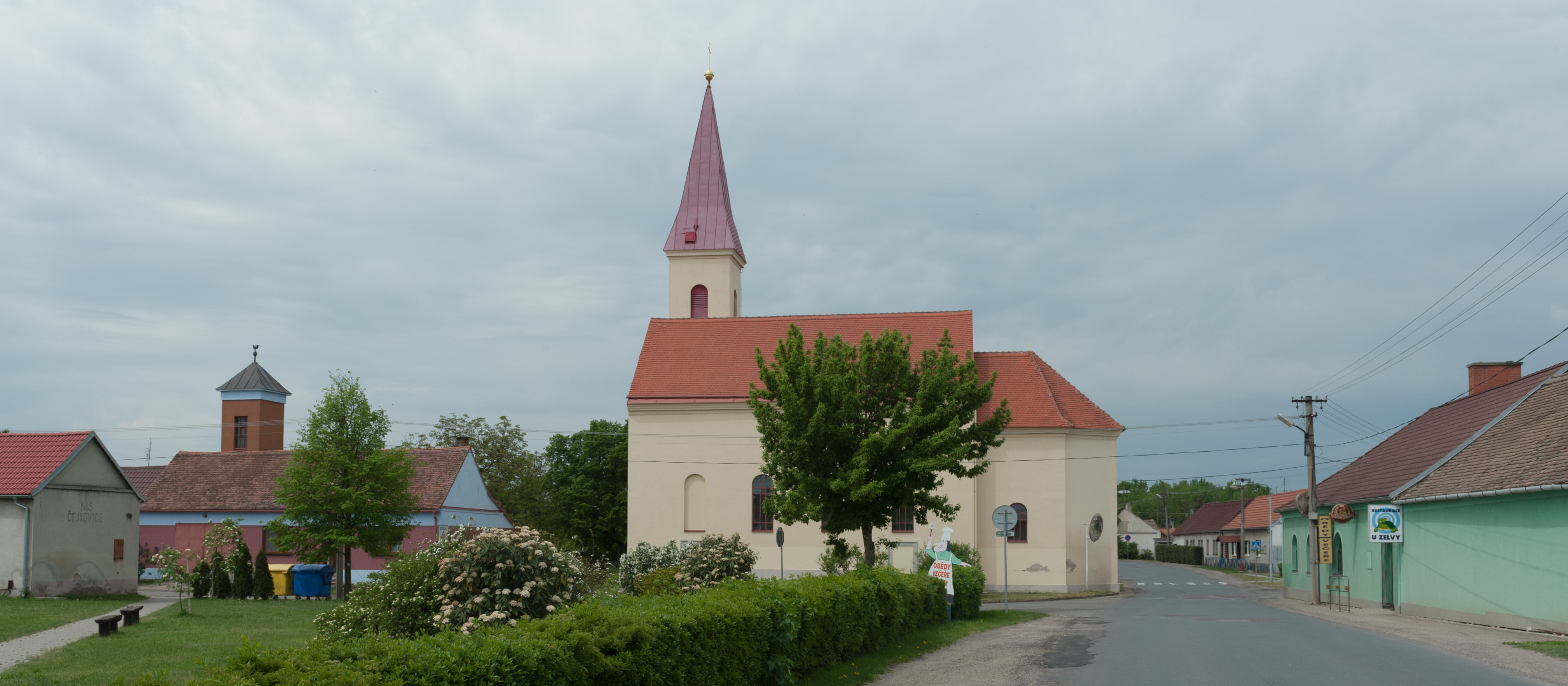 Wikitown Hustopeče: Čejkovice